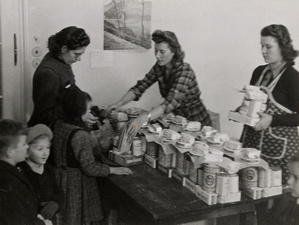 Swiss Red Cross: Child sponsorship package distribution in Vienna